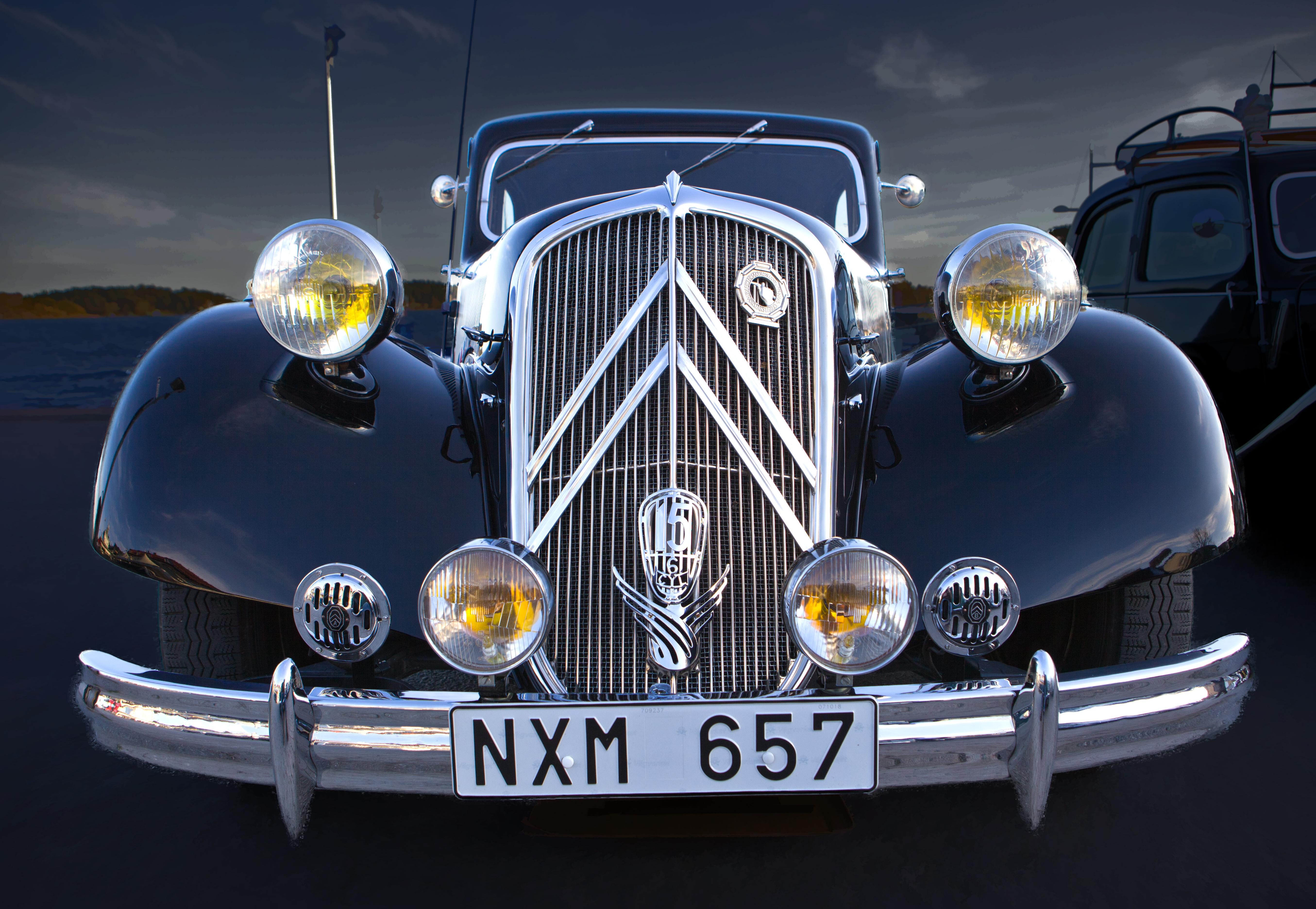 Citroën car club Vaxholm May 2012